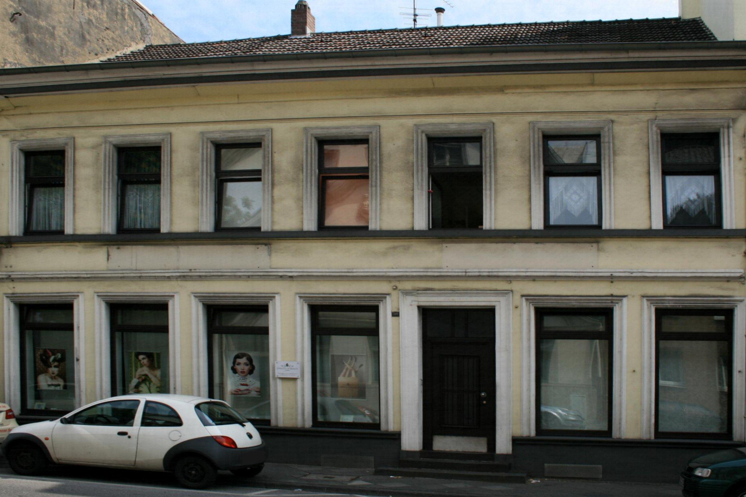 Cultural heritage monument No. F 017 in Mönchengladbach